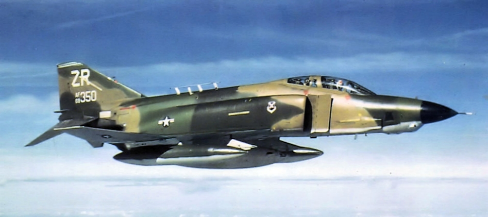 38th Tactical Reconnaissance Squadron - McDonnell Douglas RF-4C-41-MC Phantom - 69-0350